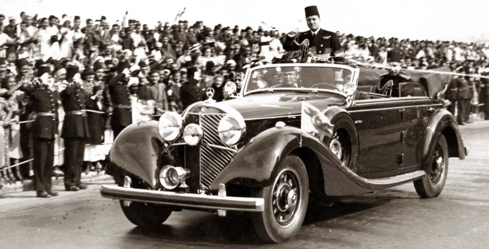 King Farouk I of Egypt in the royal car waving to the crowd of Egyptian citizens lined up to greet him.